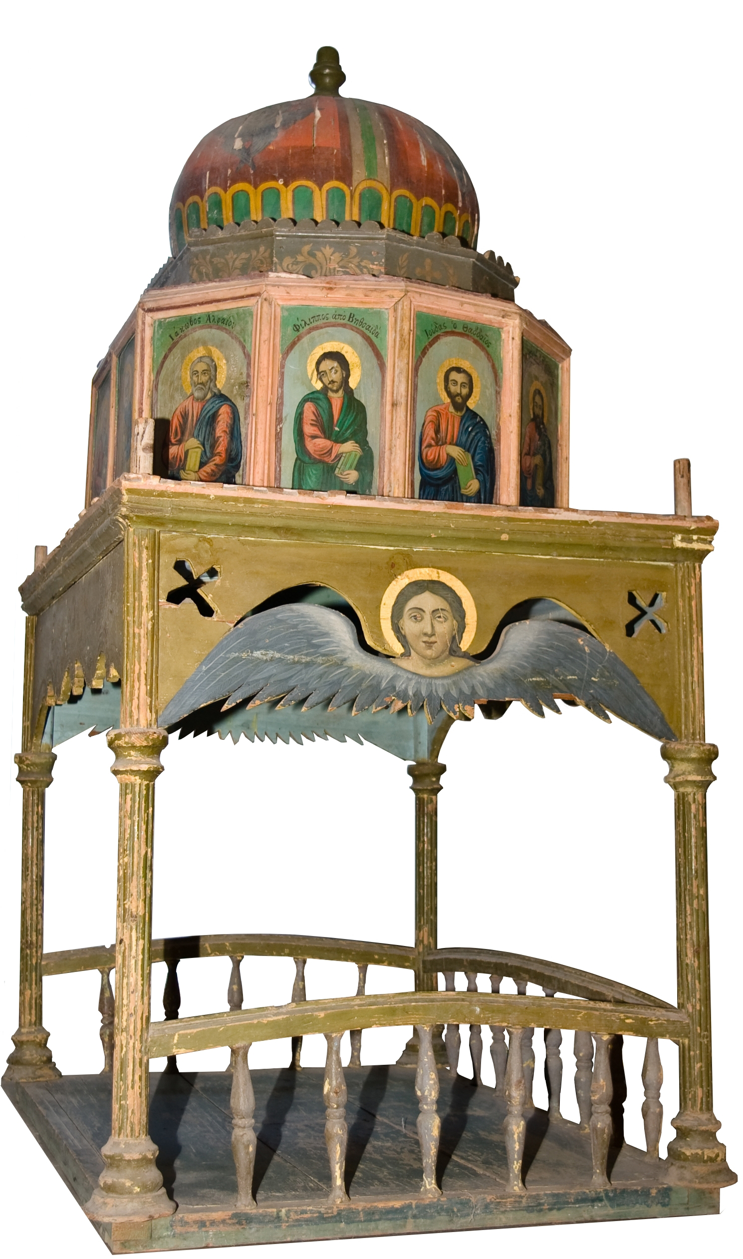 Byzantine art in Konya Archeological museum